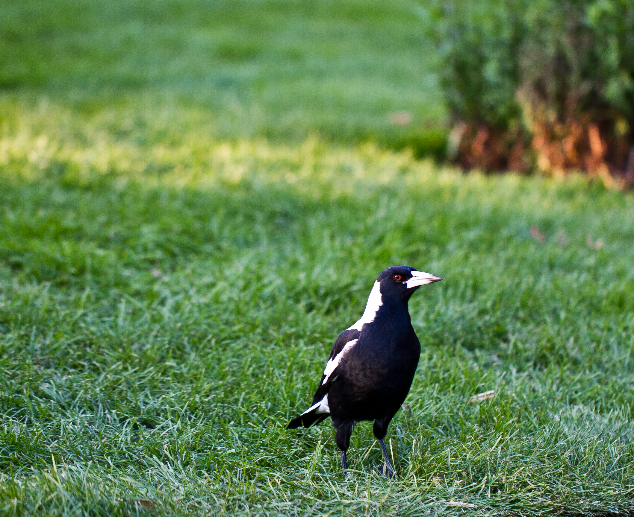 Magpie at Ballarat Botanical Garden